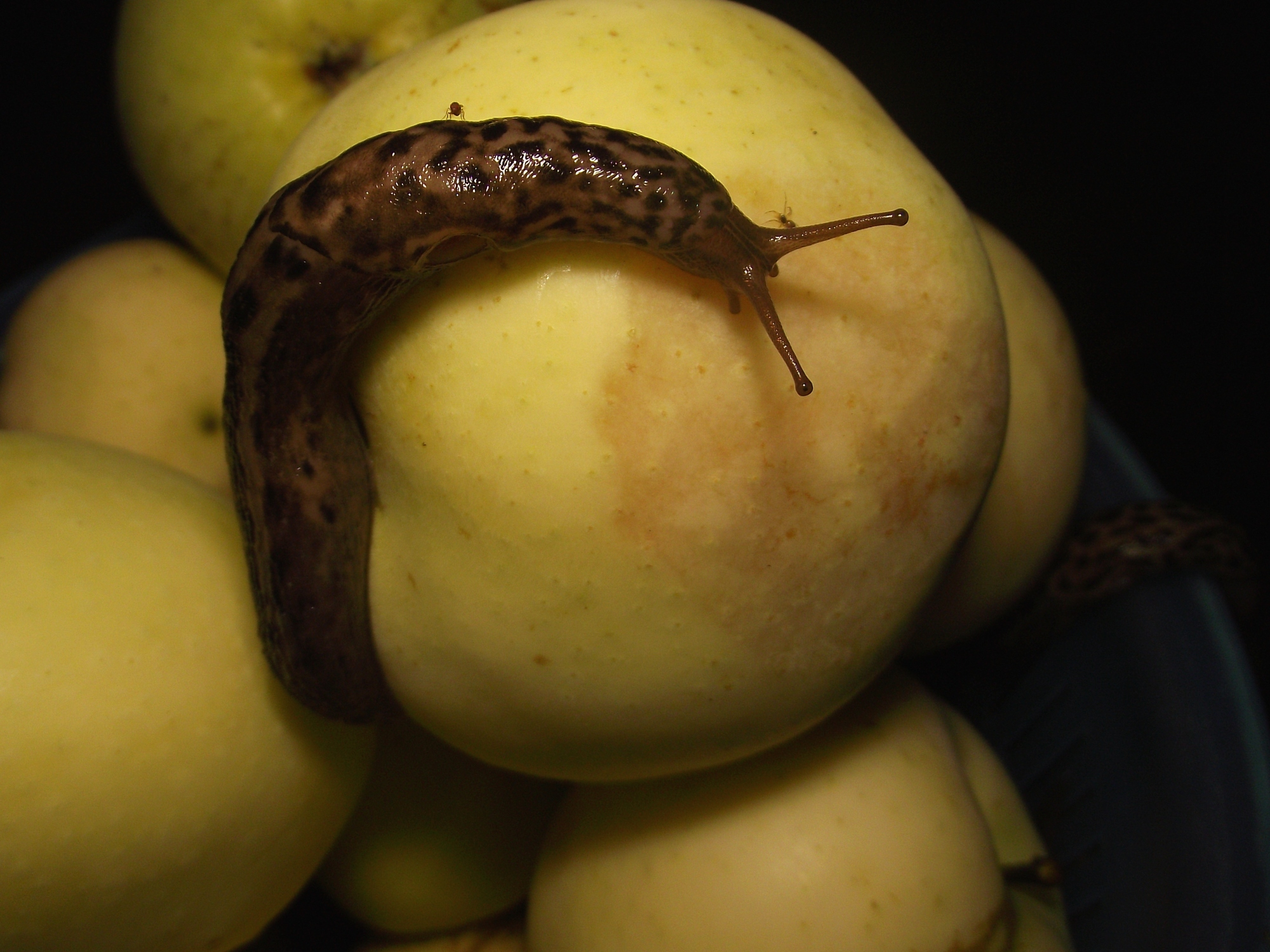 Leopard slug (Limax maximus). Pictured in Paide, Estonia. Another one is seen on the right side of the picture.